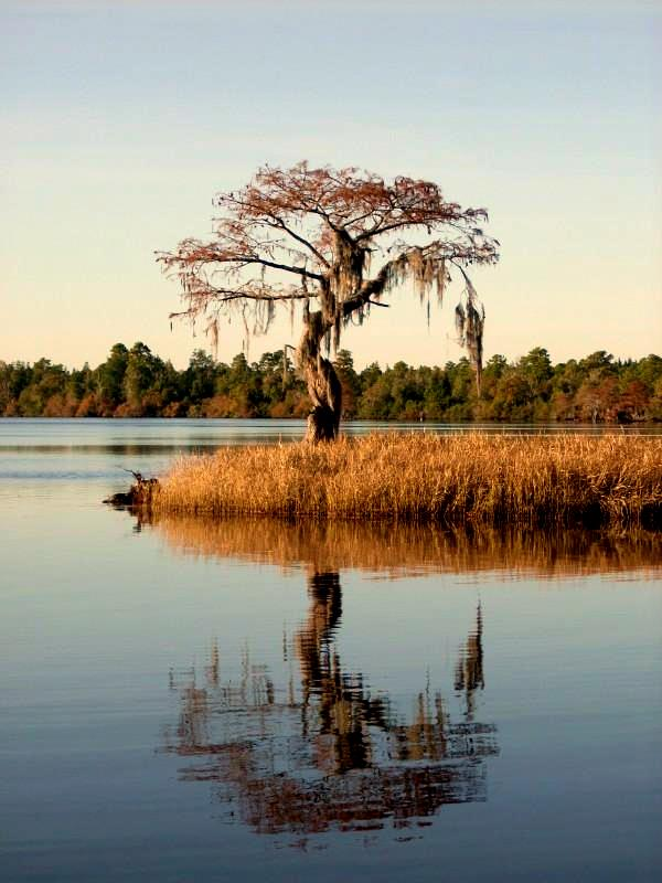 A cypress standing in Singletary Lake